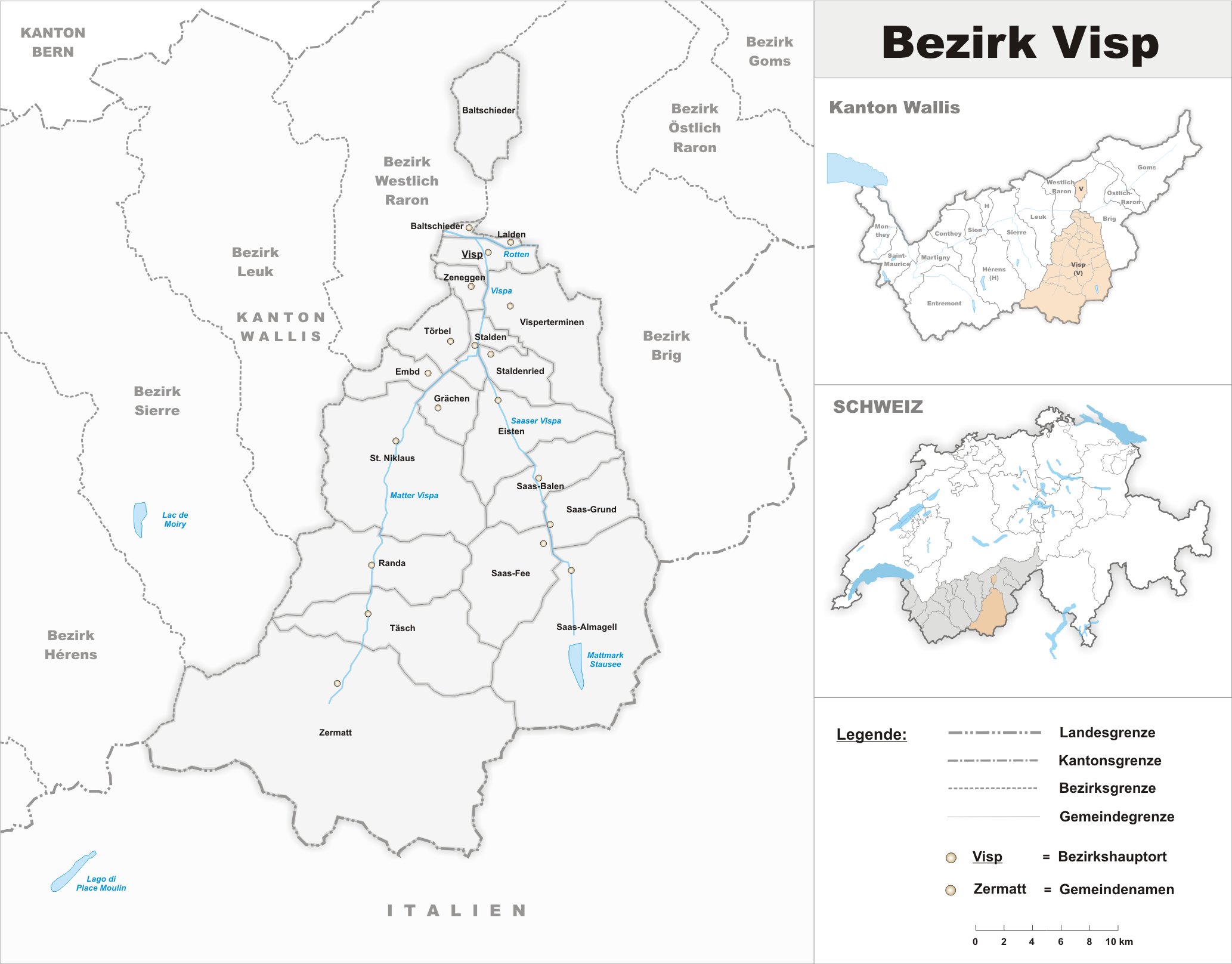 Municipalities in the district of Visp